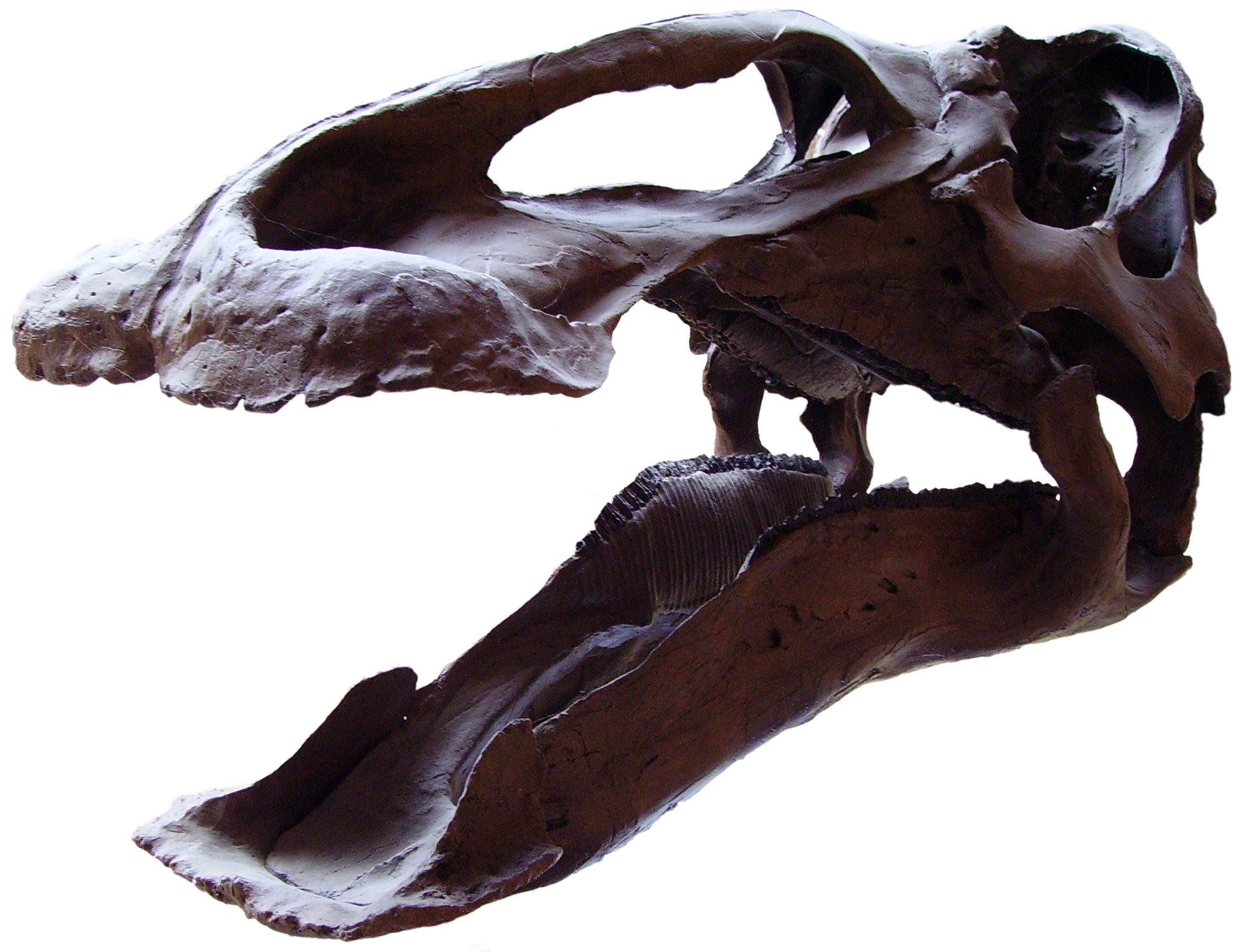 Cast of a fossil Edmontosaurus annectens skull